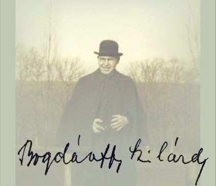 Picture of Catholic bishop beatified 2010 from Oradea and Satu-Mare